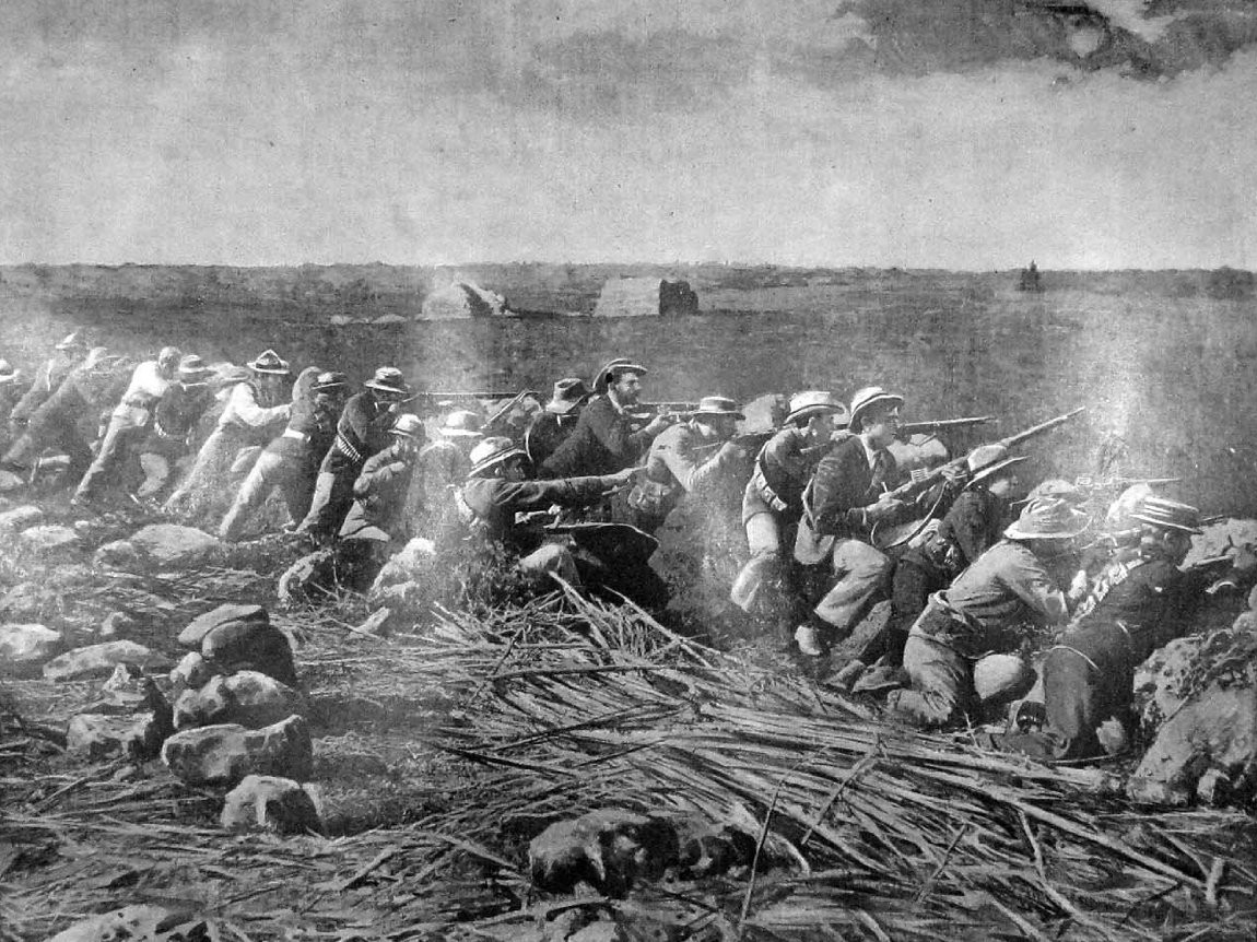 Image from the illustrated British magazine The Graphic, showing the Boer trenches at the Siege of Mafeking, 1899-1900.